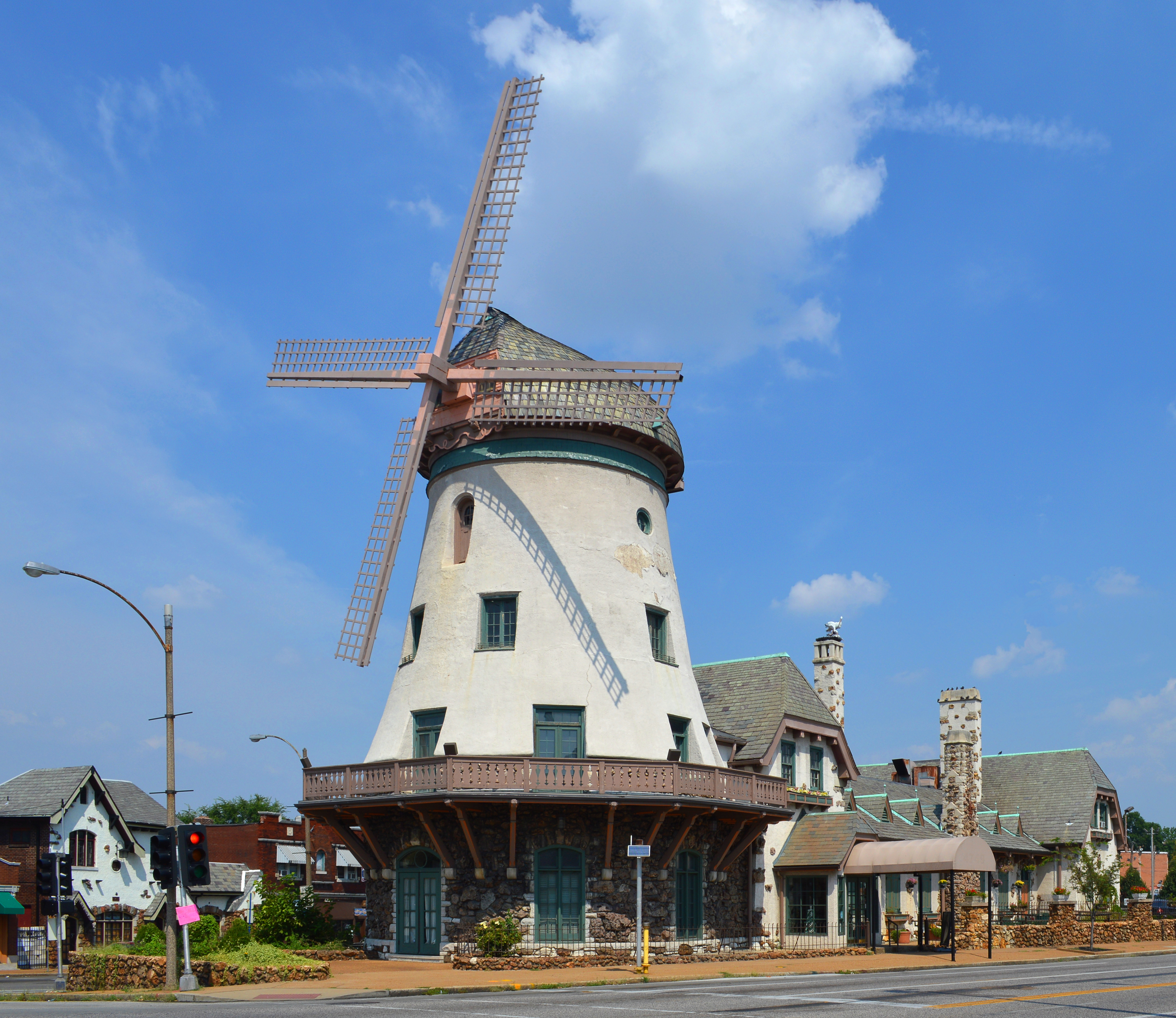 Historic Bevo Mill Restaurant in St. Louis, Missouri.